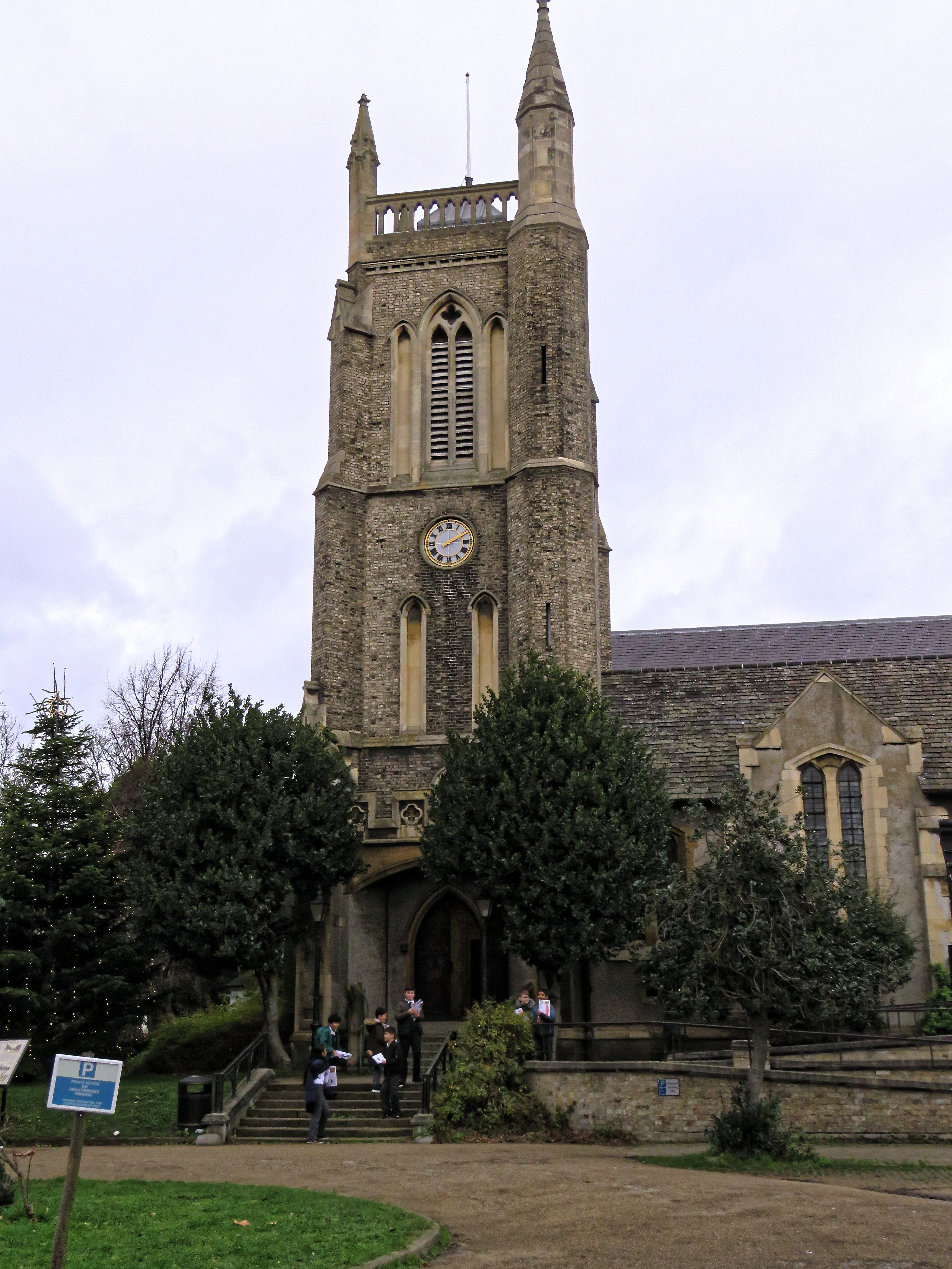 St John's Church on High Road in Leytonstone, Waltham Forest, London, England.Camera: Canon PowerShot SX60 HSSoftware: file lens-corrected, optimized, perhaps cropped, with DxO PhotoLab, and likely further optimized with Adobe Photoshop CS2.